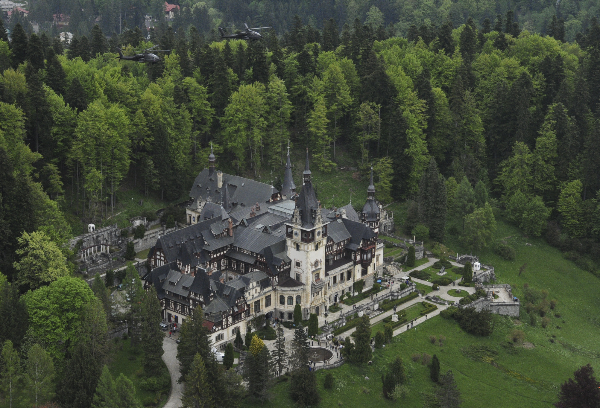 Two AH-64 Apache helicopters belonging to the 4-3 Assault Helicopter Battalion, which directly supports 2nd Squadron, 2nd Cavalry Regiment, hover above Peles Castle while participating in a welcoming ceremony held by the mayor of the city for 2nd Squadron, during the unit's Cavalry March from Mihail Kogalniceanu Air Base to the Cincu Training Center, Romania, May 14, 2015. This event will not only focus on transporting troopers and their equipment to a new Romanian training facility, but it will also give the unit a chance to interact with the local populace while improving on relations with their host nation in support of Operation Atlantic Resolve-South. (U.S. Army photo by Sgt. William A. Tanner/released)